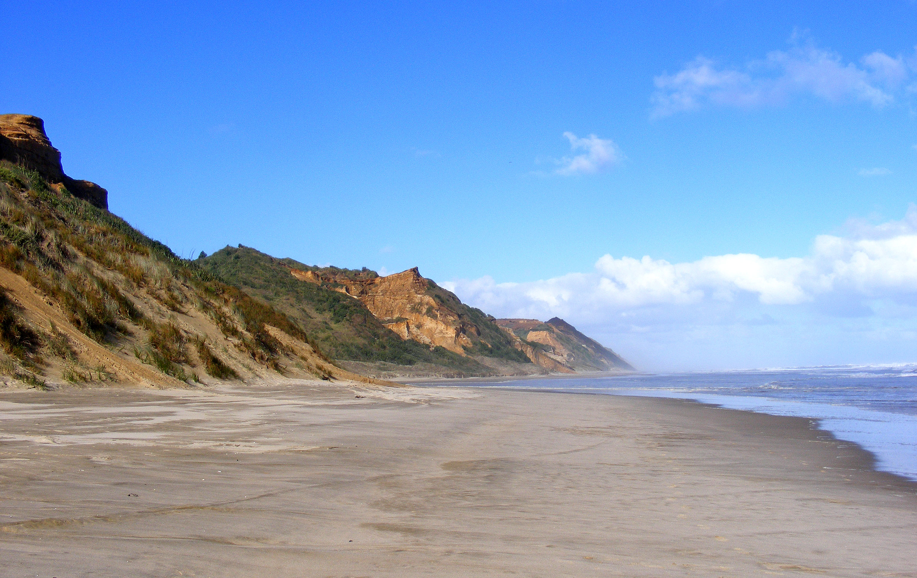 Ripiro Beach